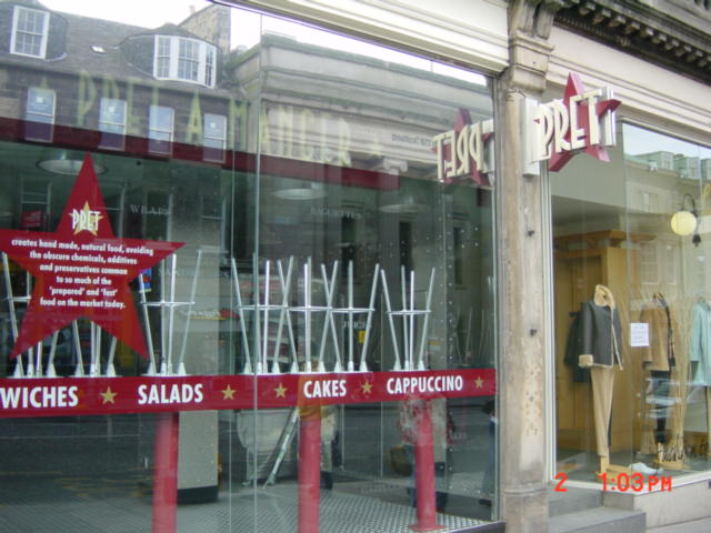 Pret-A-Manger locaton at Edinburgh, Scotland